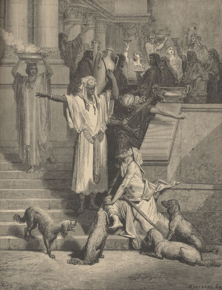 Print by Gustave Doré illustrating the parable of the rich man and Lazarus, from the Gospel of Luke